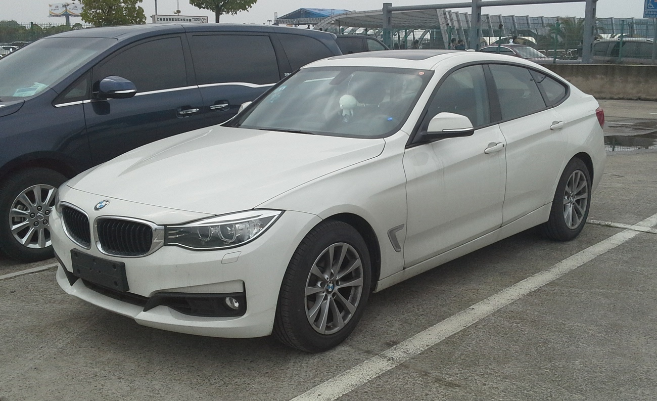 BMW 3-Series F34 GT photographed in Anting, Shanghai municipality, China.